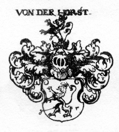 Coat of Arms of Horst